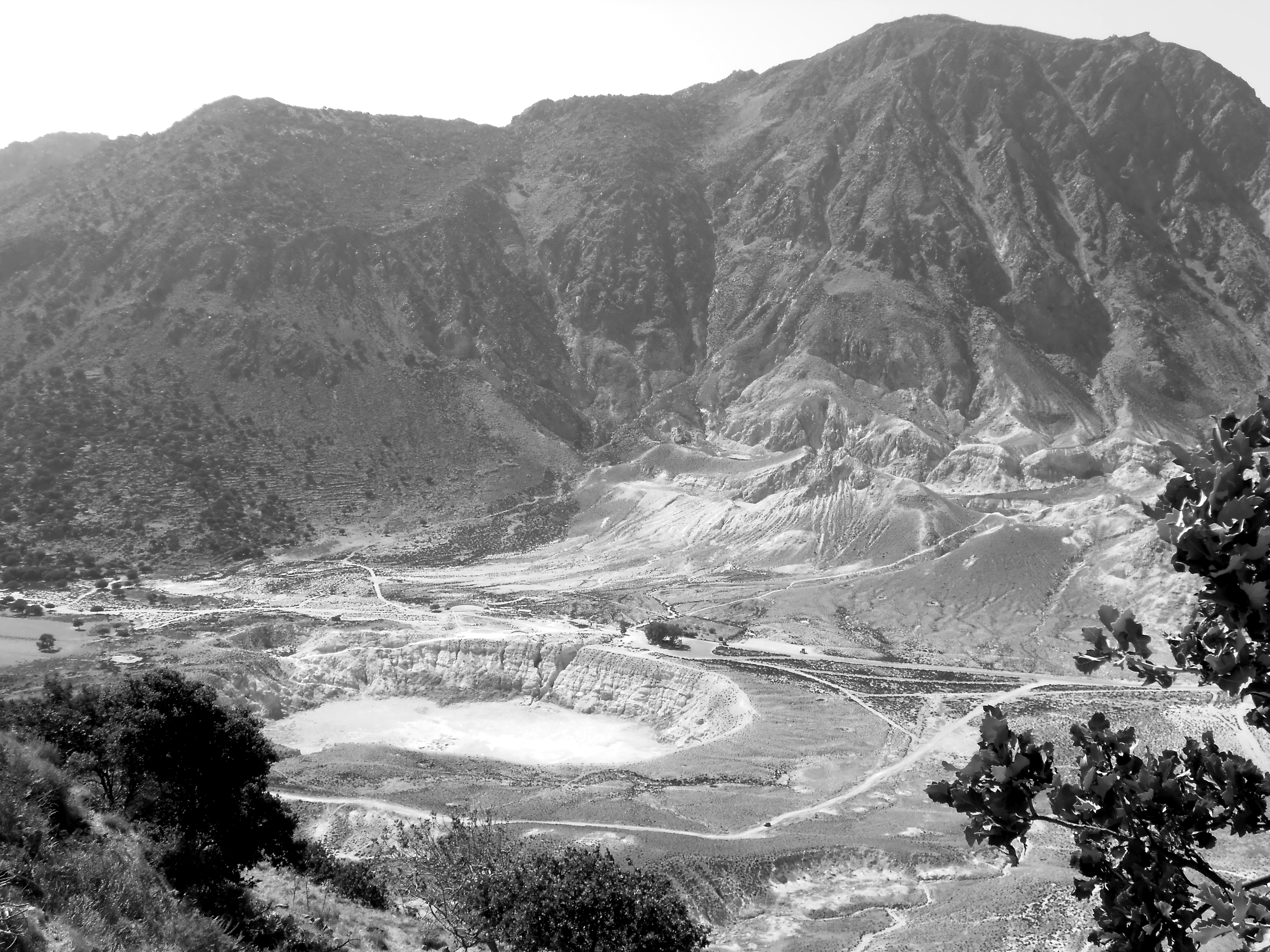 Crater Stefanos of Nisyros' volcano. Nisyros Island, Dodecanese, Greece. This is a photography of Natura 2000 protected area with ID GR4210007